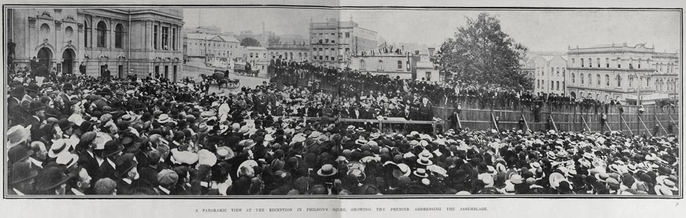 A view of the civic reception hosted for returning members of the 1905-06 New Zealand rugby union team that had toured Europe and North America. Reception was held on 6 March 1906 in Philson's Square (no longer in existence, but on the corner of Wellesley Street and Kitchner Street). Caption published with photograph reads: "A panoramic view at the reception in Philson's Square, showing the Premier [Richard Seddon] addressing the assemblage.